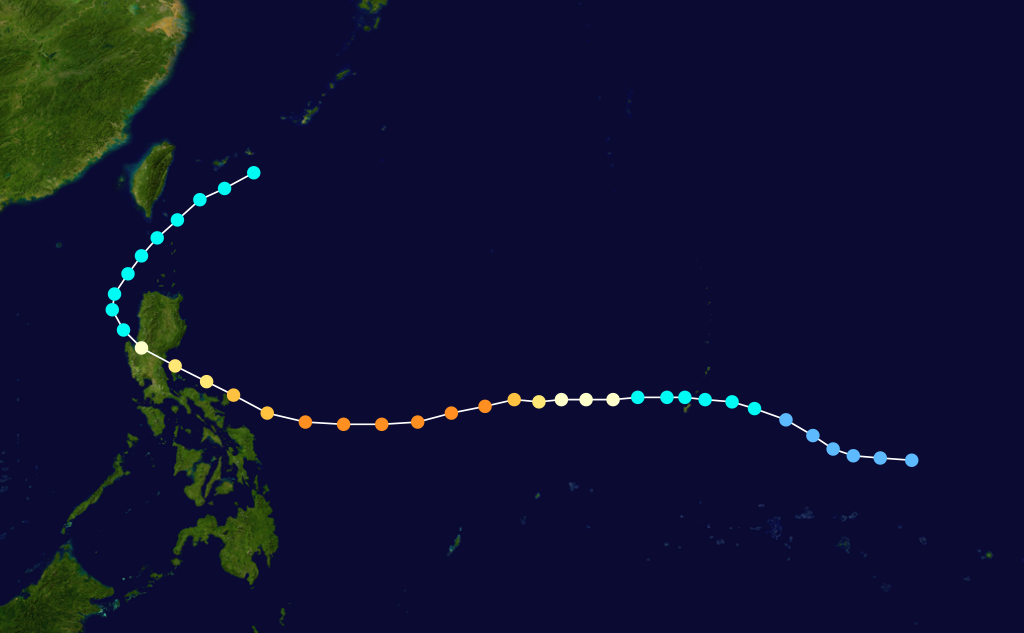 Typhoon Irma (1981) track. Uses the color scheme from the Saffir-Simpson Hurricane Scale.